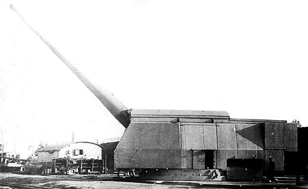 406 mm/50 B-37 naval gun in MP-10 test mount; for Project 23 battleship ("Sovetskiy Soyuz" class)